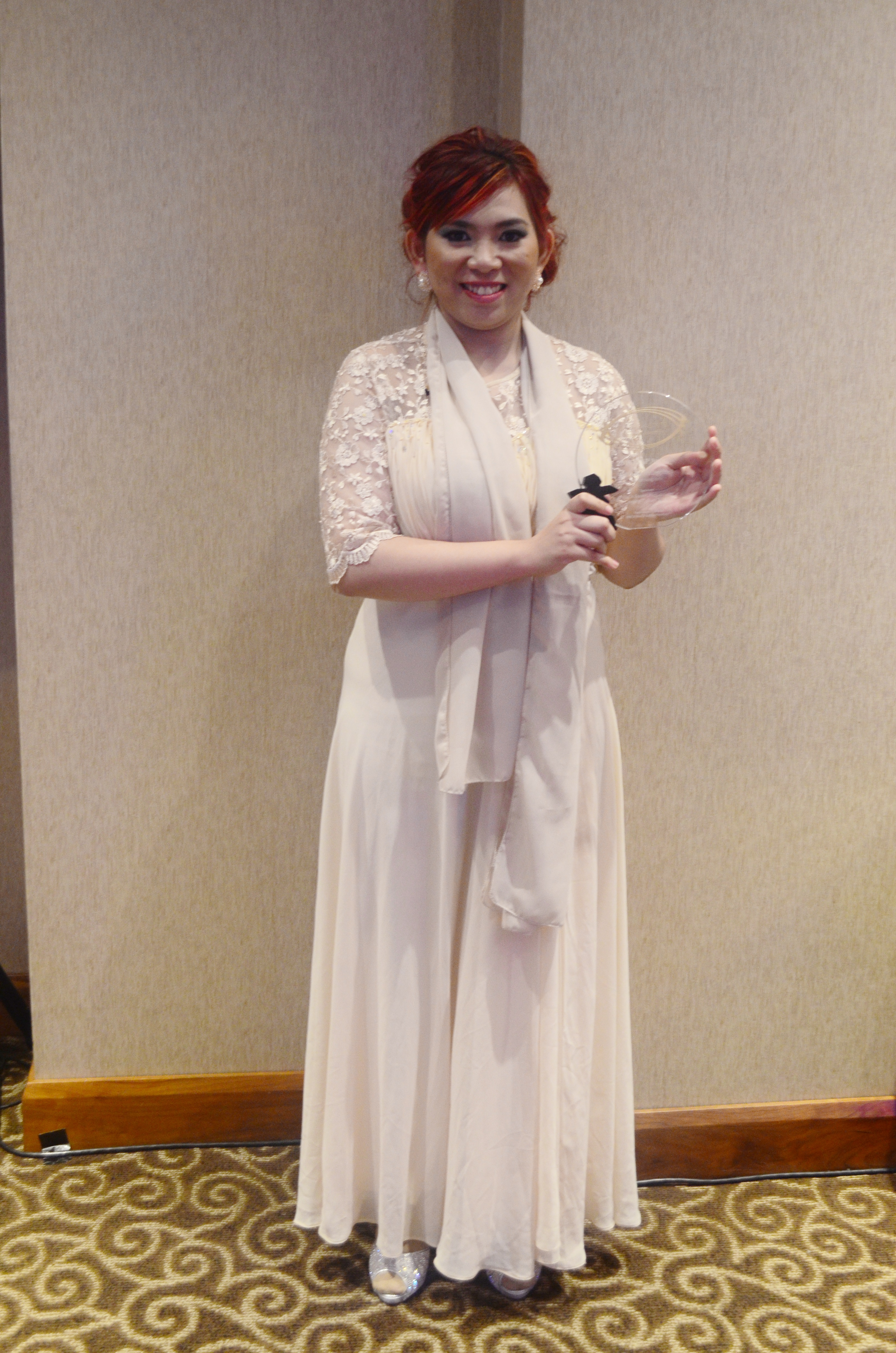 Vell receiving the 1st place at the Performing Arts at the 7th INAP Awards Night at Vancouver, Canada last October 1, 2016